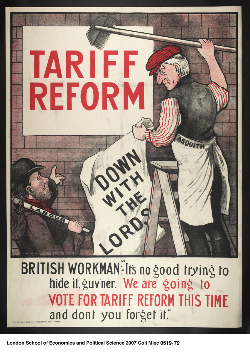 Asquith is shown trying to cover up a poster advocating Tariff Reform with one reading "Down With the Lords", while a British Workman berates him from the ground. Artist: Unknown Printer: McCorquodale and Co Publisher: Printer Place of Production: London Date: c1905-c1910 Persistent URL: misc 0519/79')